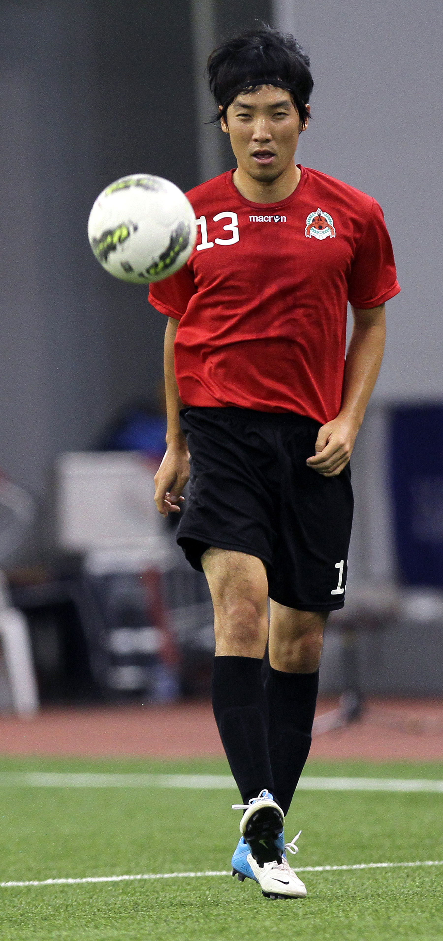 Al Rayyan's South Korean player Cho Yong-Hyung balances the ball during their Sheikh jassim Cup final against Al Sadd at the ASPIRE Academy Indoor Pitch. Picture by Vinod Divakaran